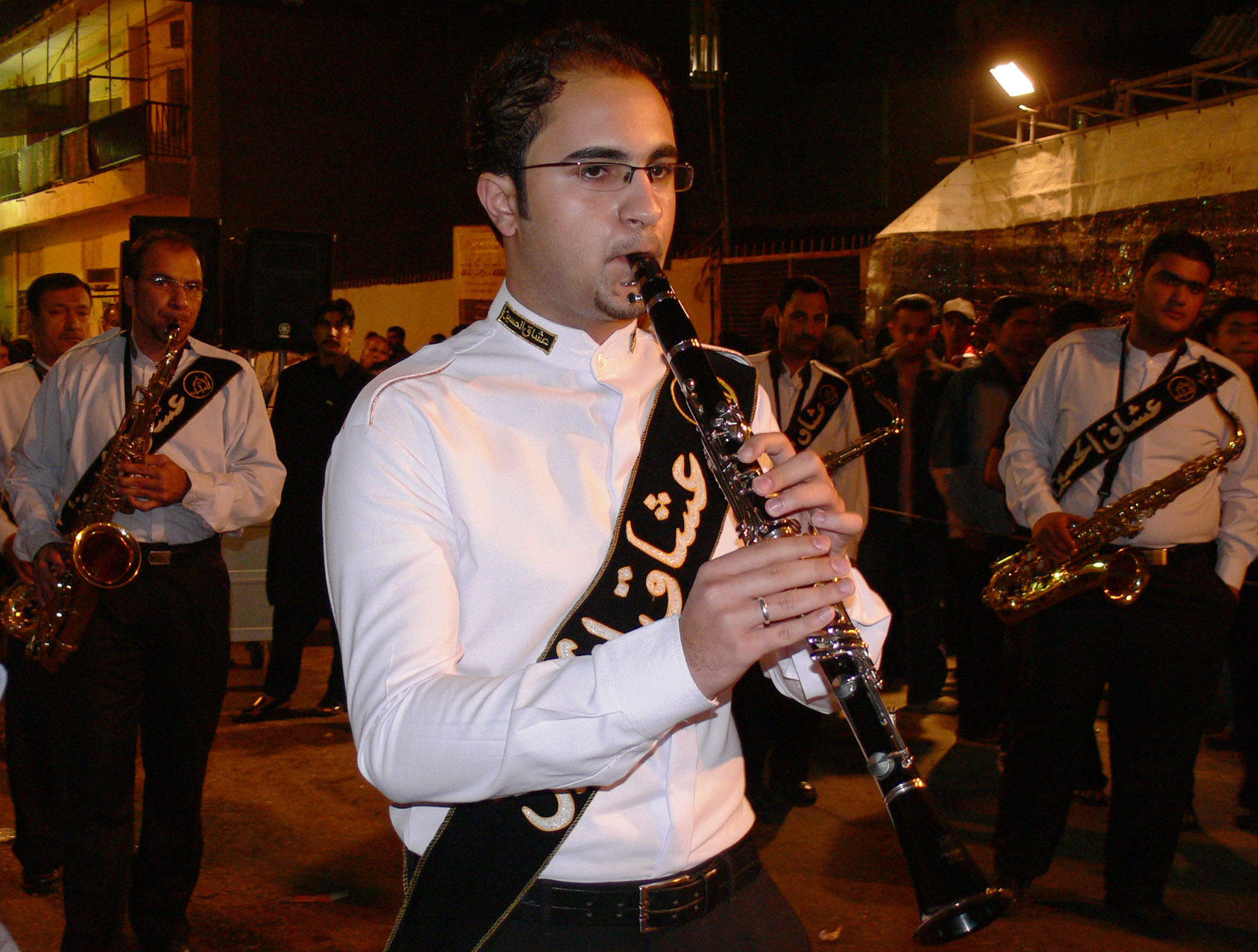 Original caption: I have received some mails asking about Ashoora rituals, and practices. Some queries about violent and bloody practices as well. We do not deny their existence, yet there is a conflict among shiats leaders about them. On the other hand there are many other practices which emphasize the values Imam Hussain sacrificed his life for. I have captured some of them, yet the possibility for improvement is open. The activities include: Blood Donation Campaign Art Galleries Musical and Choir Bands Value Modeling Plays and Performances and etc...Ashoora Musical Band